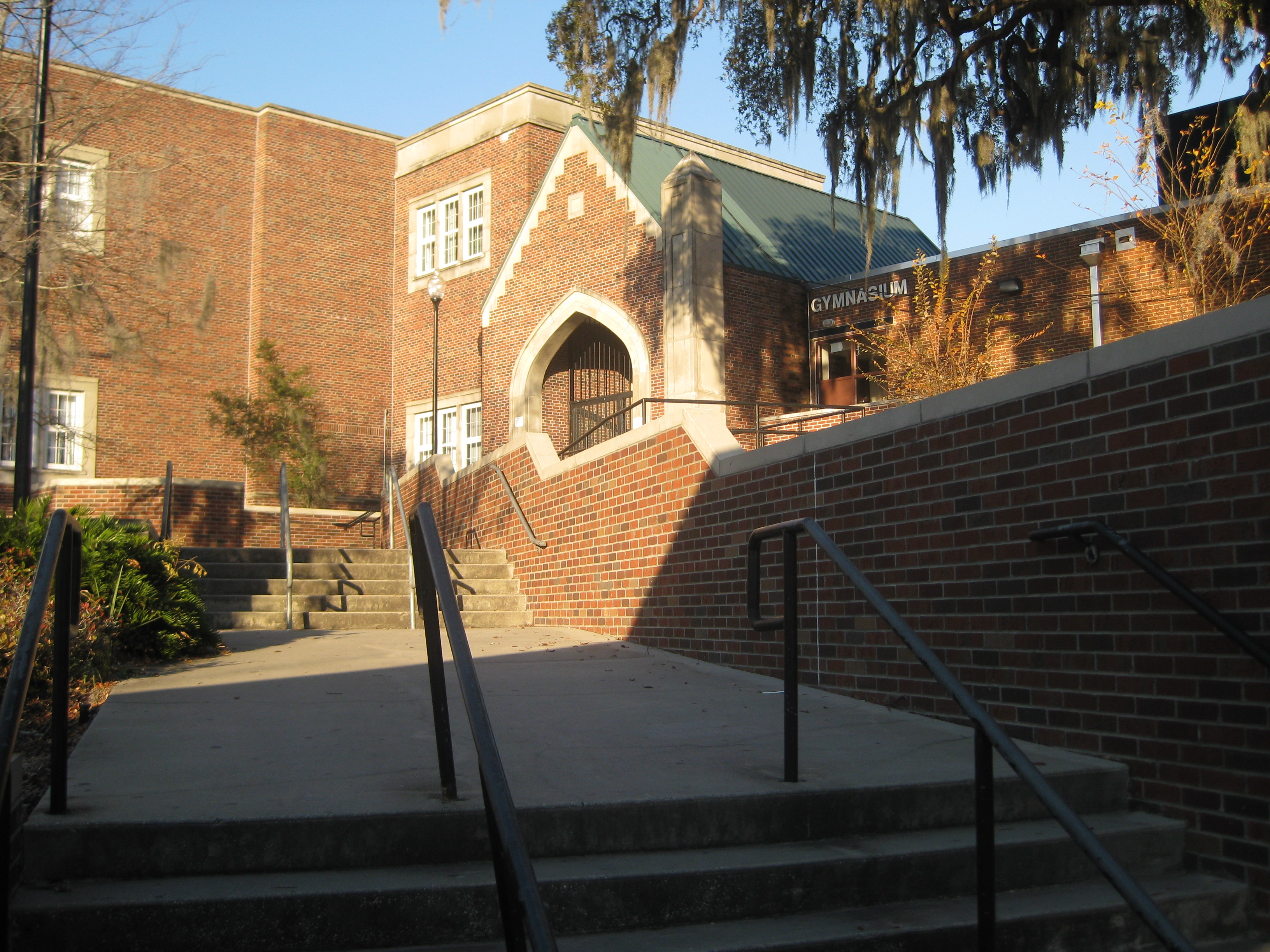 Stairs climb from street level upward to the gated west entry into Hillsborough High School and the school's gymnasium, named the Don Williams Athletic Center, to the right.